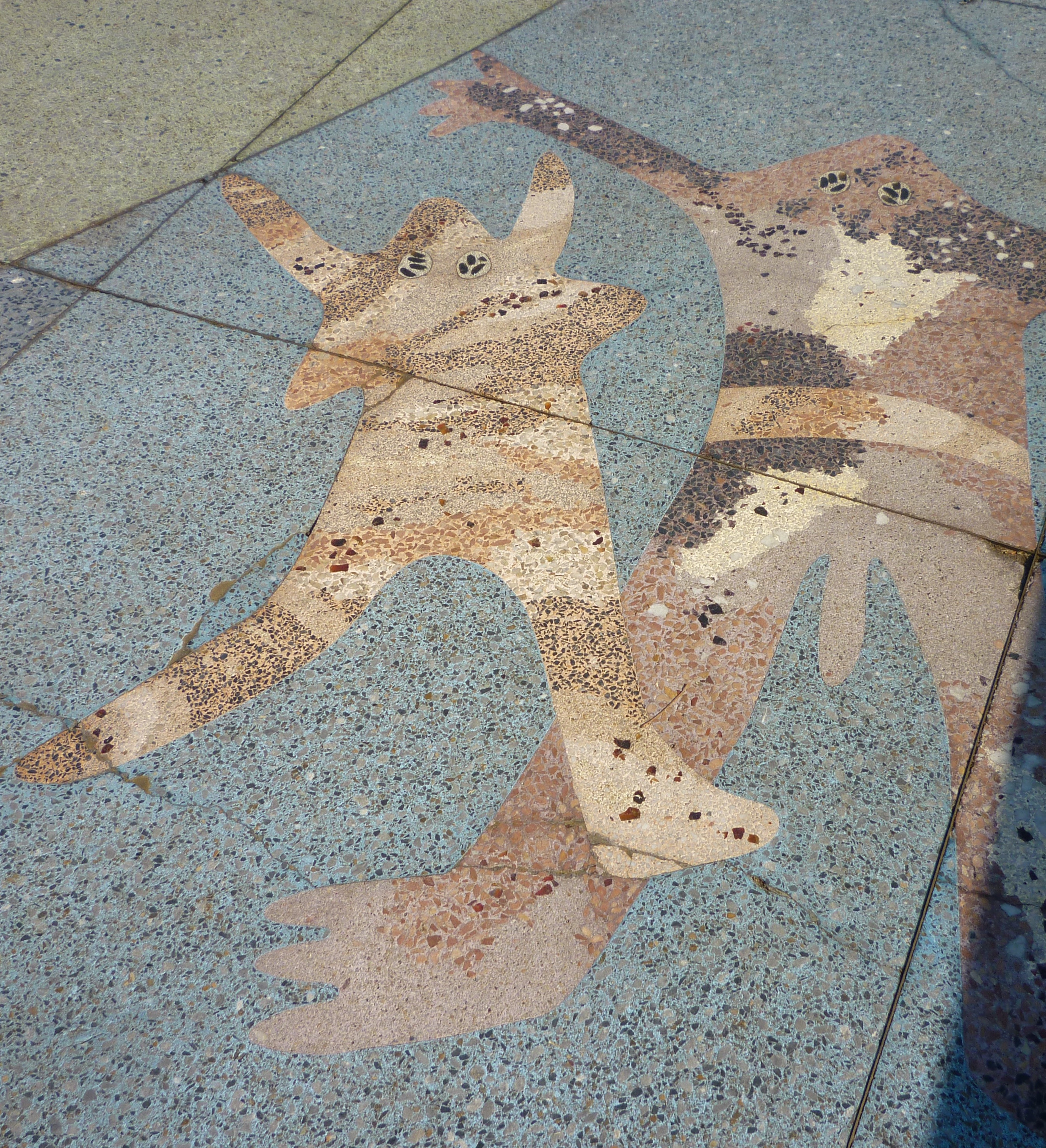 Sculpture by Brenda L.Croft set into pavement in Royal Botanic Garden, Sydney